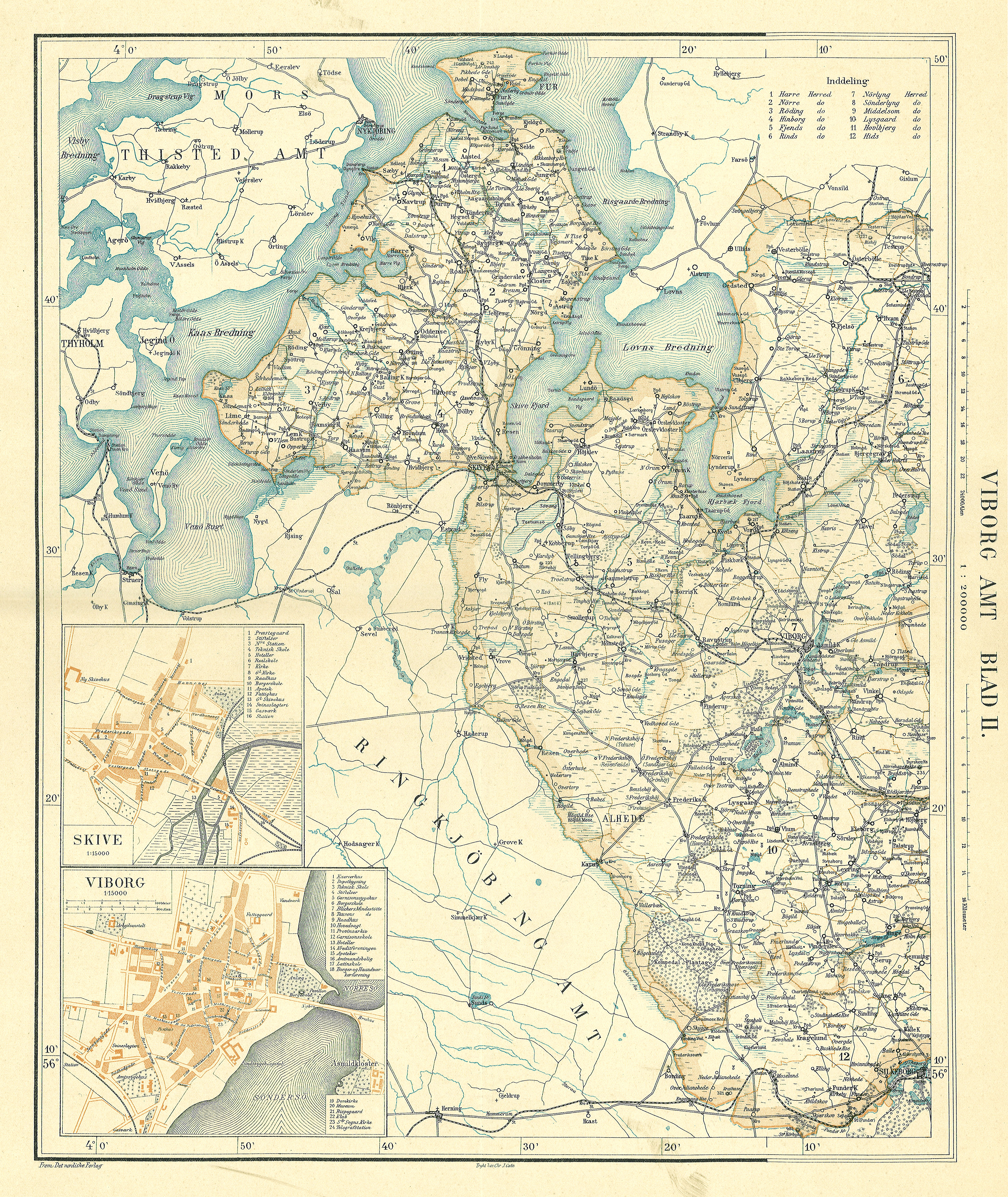 Map of the northwestern part of Viborg County in Denmark